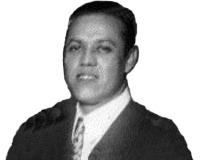 Photo of Carlos Hugo Christensen